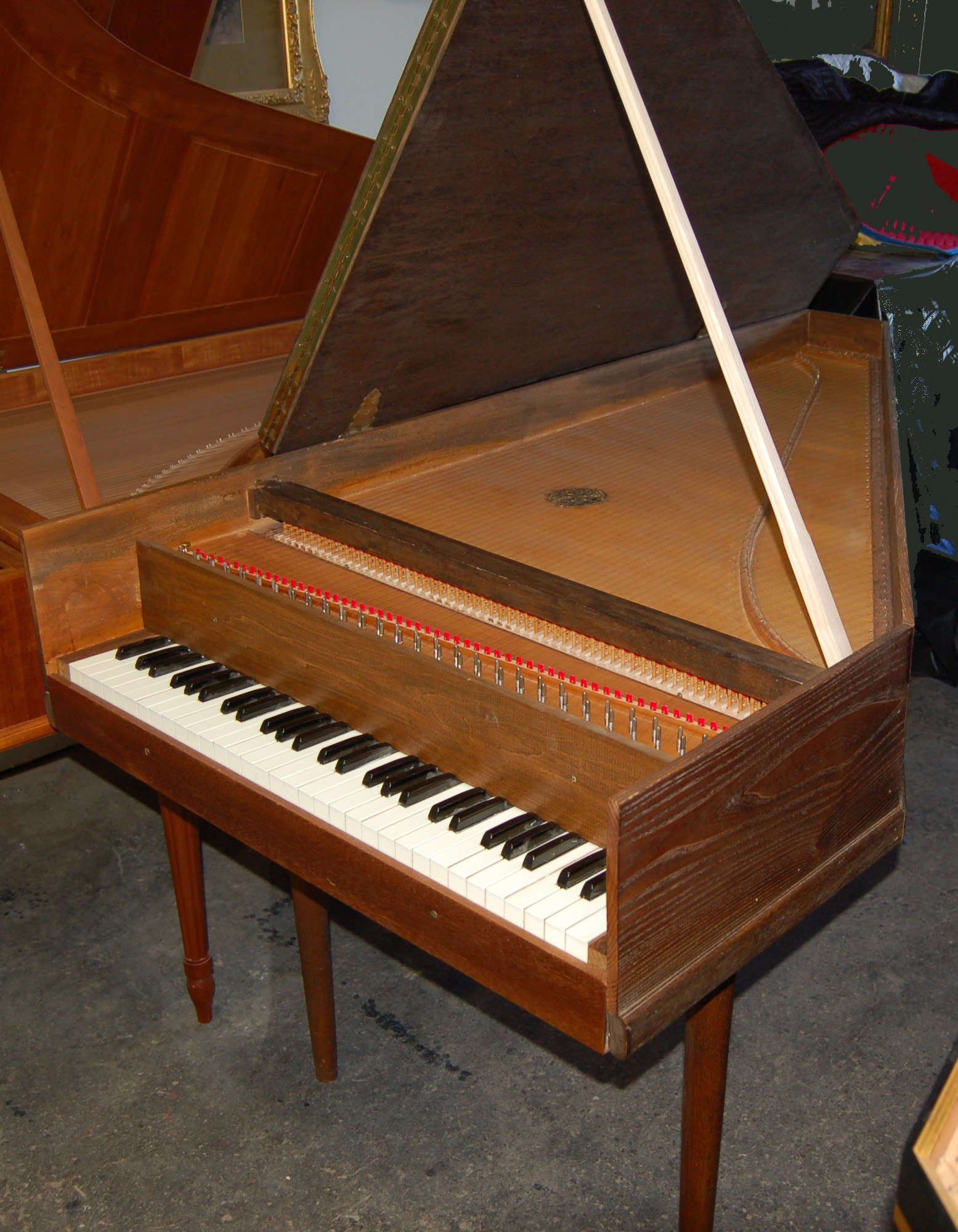 Zuckermann "Z-Box" I contacted Zuckermann Harpsichords International by email and received permission with the following messages : If you will give me a little time we have a 5' Z Box here in the shop. I will take the picture and you are welcomed to use it in any manner you wish. ... Here I have attached a few pictures that you are free to use. I hope they will work for you. Steve Salvatore Zuckermann Harpsichords International